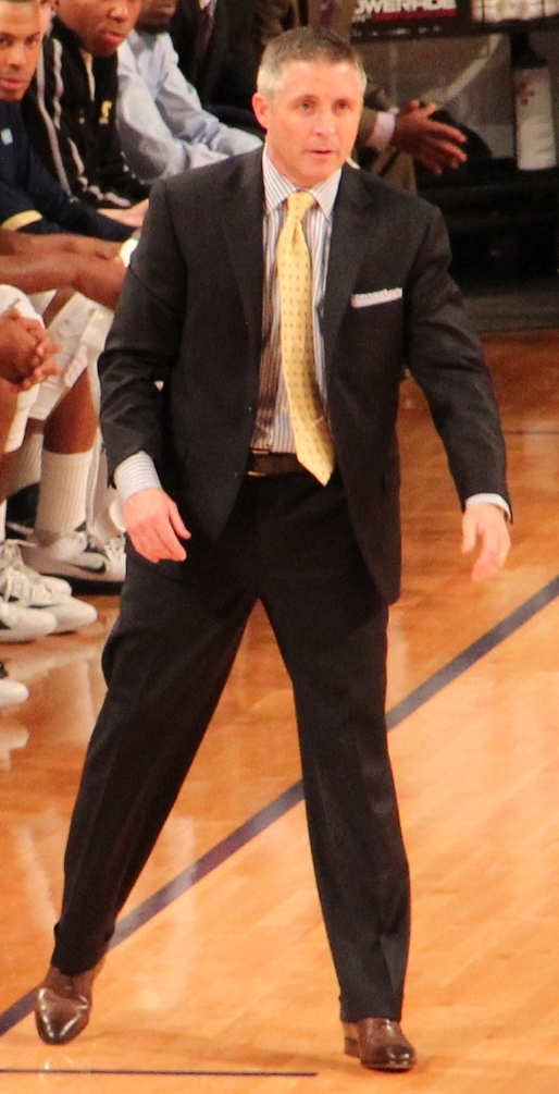 Georgia Tech coach Brian Gregory on the sidelines, 2012